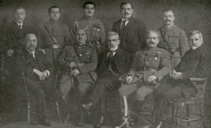 The Armenian delegation to the United States in 1919 Top row (left to right): A. Piralyan, M. Ter-Poghosyan, S. Melikyan, Armen Garo, H. Bonapartyan Bottom row (left to right): Artashes Enfiajyan, Jaques Bagratuni, Hovhannes Katchaznouni, Andranik Ozanian, A. Der-Hagopian